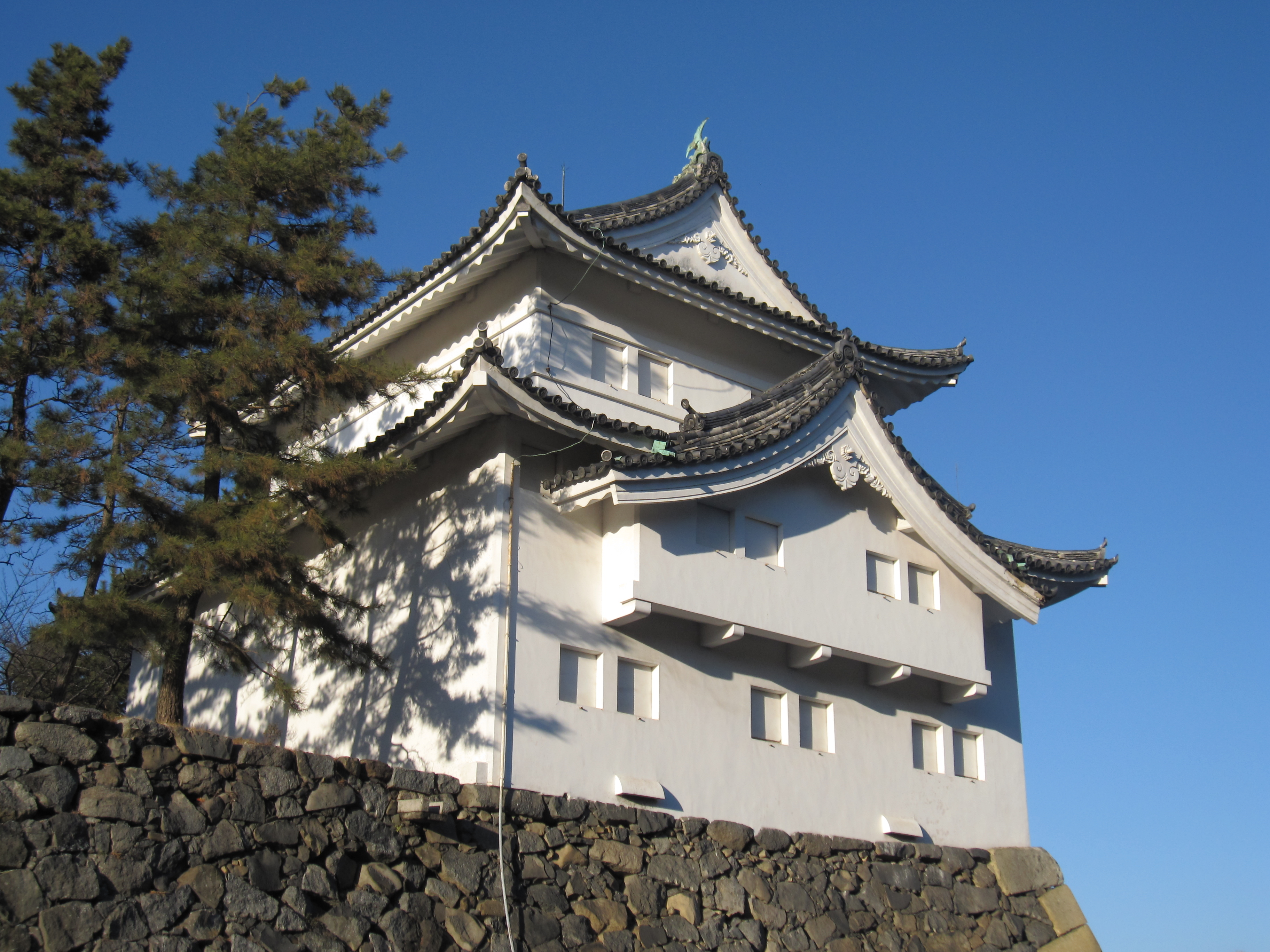 Called the "Tatsumi" turret, the southeast turret of Nagoya Castle looks like it has two stories, but actually has three. The white coating on the mud walls made the structure water- and fireproof. The southeast turret is similar to the southwest turret. The construction adheres to the original design by the Tokugawa. The symbol of a hollyhock, the crest of the Tokugawa family, can be seen on the ridge-end tiles. The turret has been designated an Important Cultural Asset.